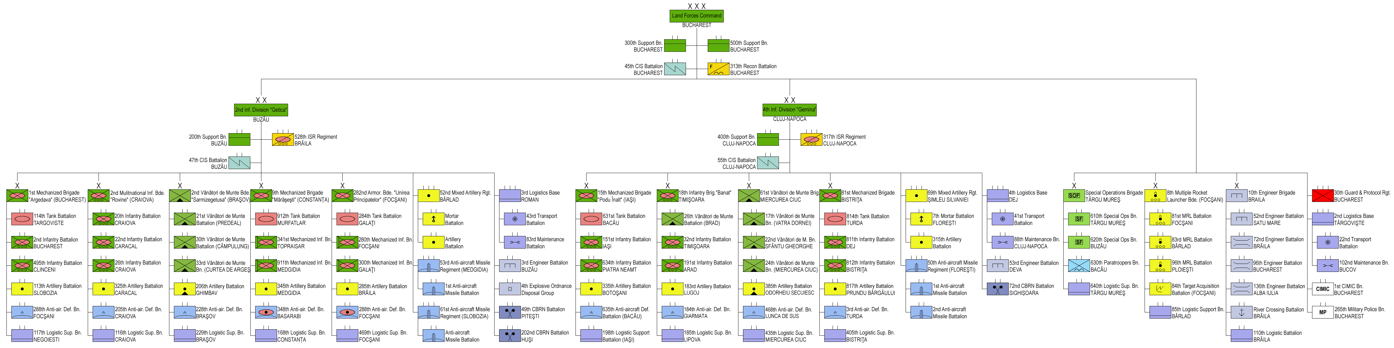 Romanian Land Forces